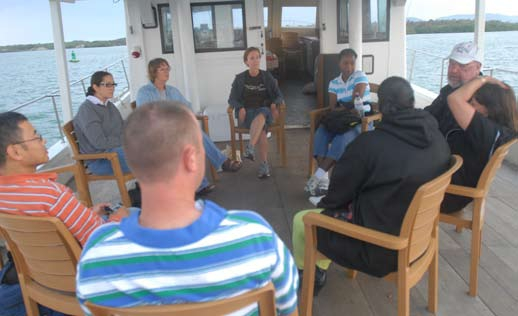 The book club held its monthly meeting on the “GTMO Queen,” March 20. Dinner and casual conversation kicked off the evening followed by a rousing discussion of books about Cuba. – JTF Guantanamo photo by Army Staff Sgt. Blair Heusdens